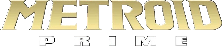 The logotype for "Metroid Prime".